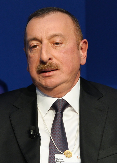 Ilham Aliyev discusses issues related to Azerbaijan